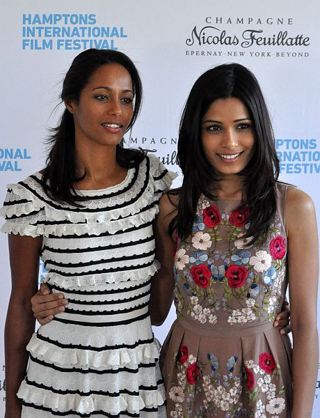 Journalist Rula Jebreal and actress Freida Pinto attend 18th Annual Hamptons International Film Festival Chairman's Reception on October 9, 2010 at the home of Stuart Suna in East Hampton, New York. (Photo © Nick Stepowyj)